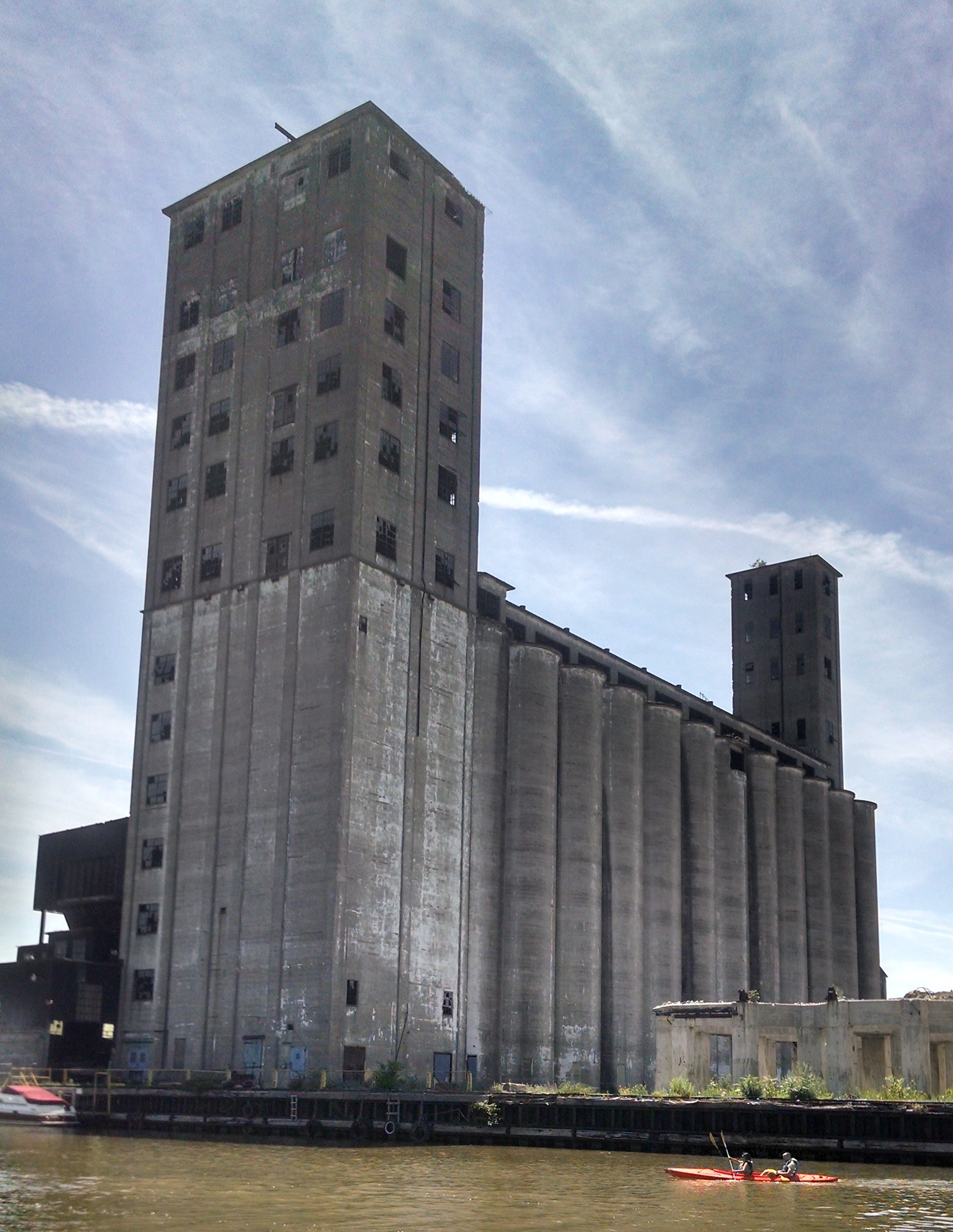 Wheeler Elevator, Agway/GLF East Work House, in Buffalo NY.